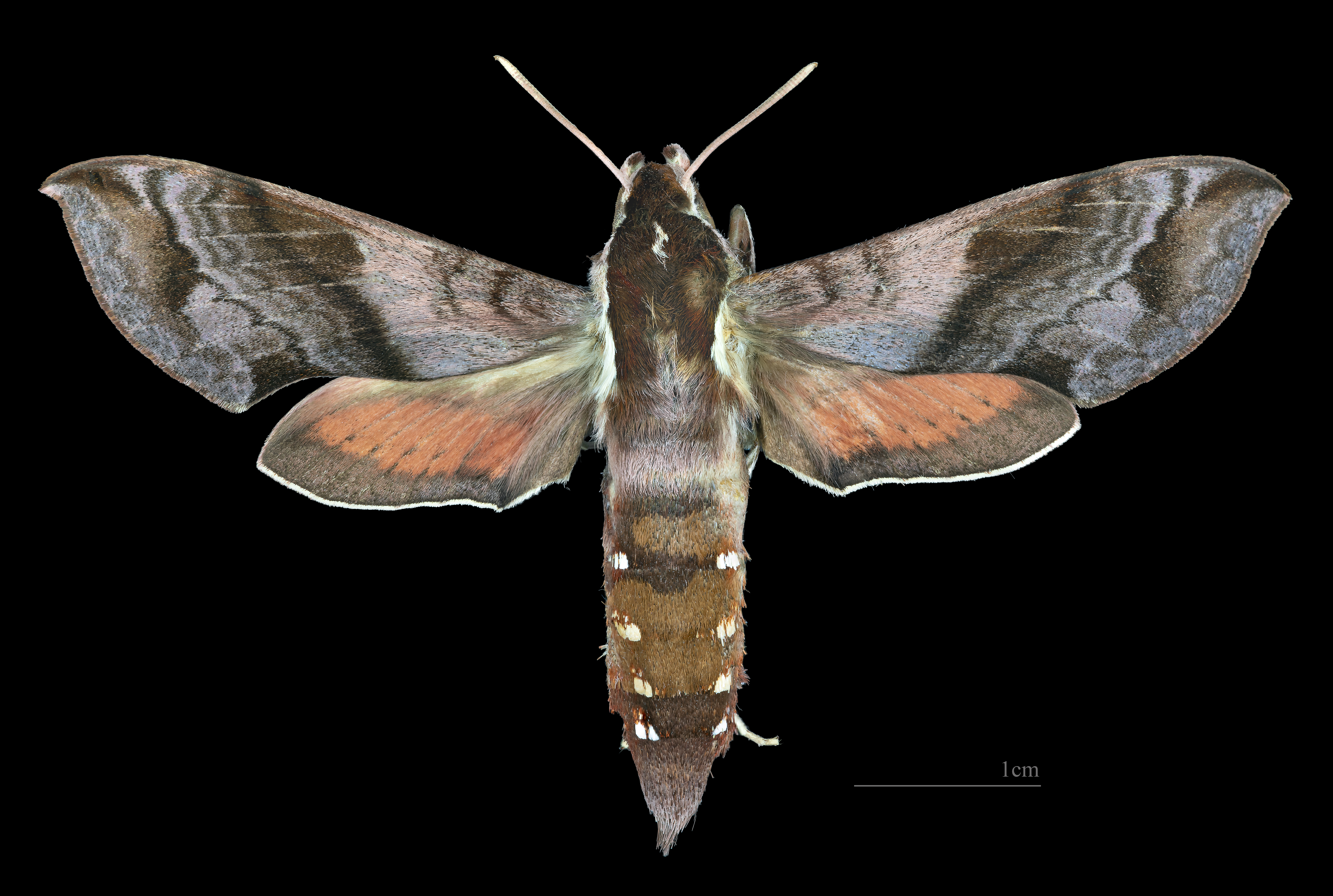 Hippotion brennus - Dorsal side Collection of the Mathematician Laurent Schwartz